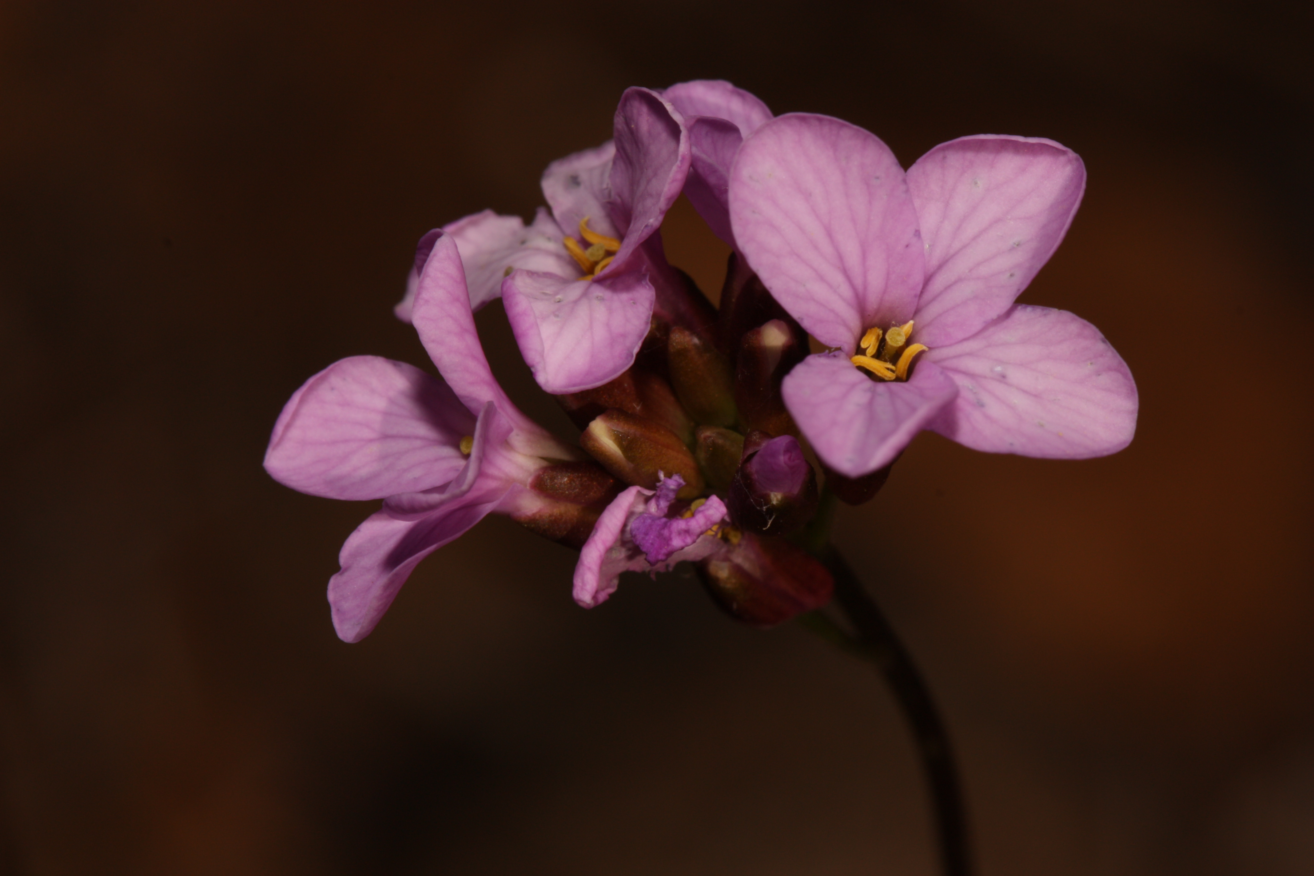 Waldo Rockcress Viewpoint location: Little Falls Trail, T. J. Howell Botanical Drive Viewpoint elevation: 405 meter (1329 ft) Location source: Garmin GPSmap 60CSx Location Datum: WGS84